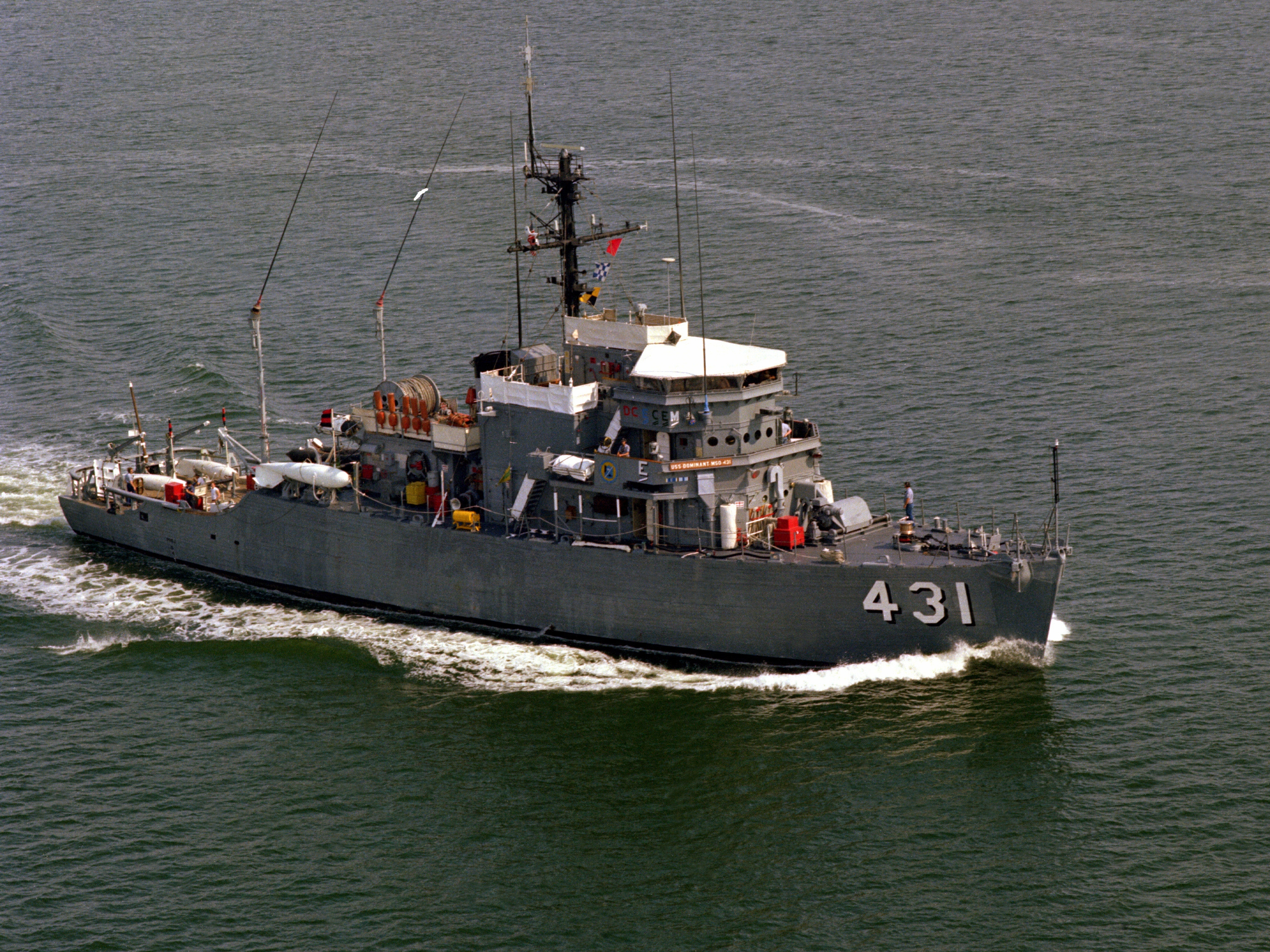 The U.S. Navy ocean minesweeper USS Dominant (MSO-431) underway in the Atlantic Ocean, in 1981.